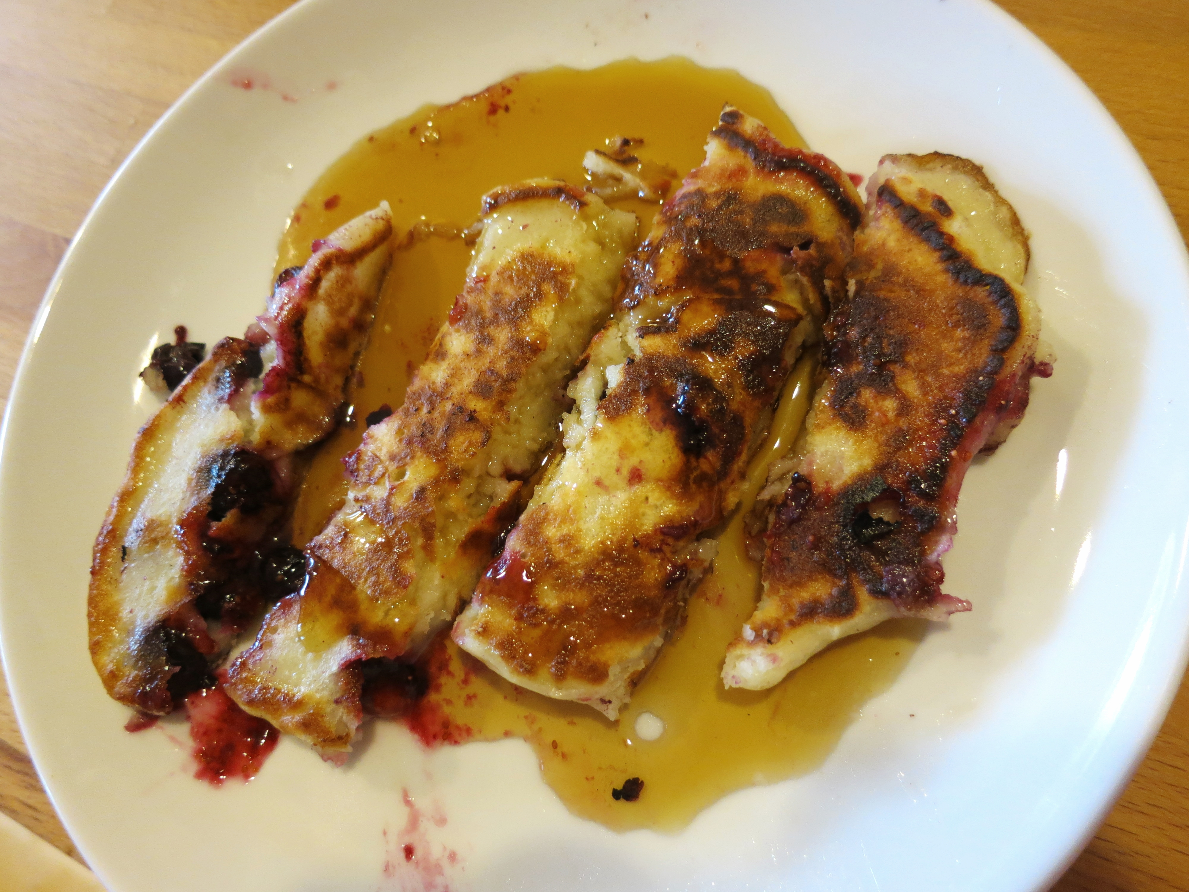 Blueberry pancakes with maple syrup